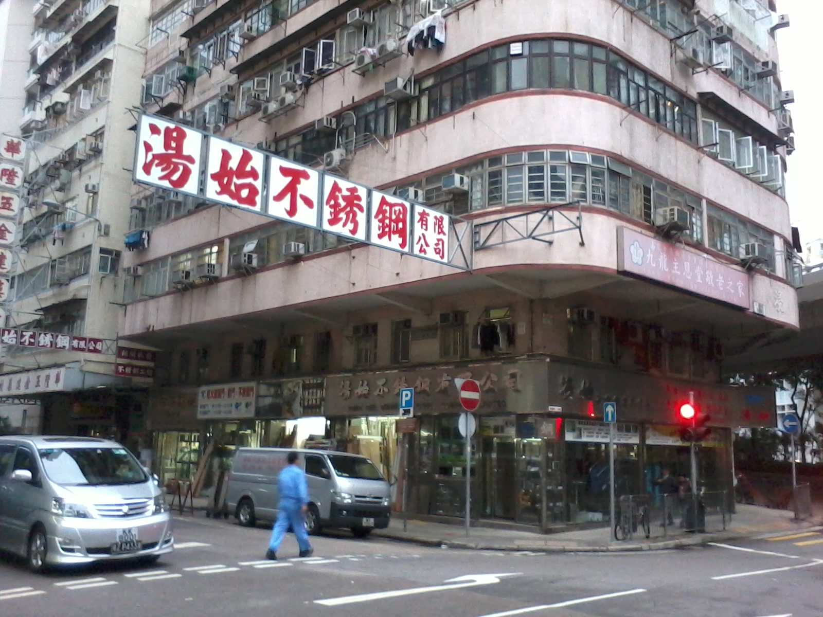 大角咀 松樹街, View of Fir Street, Tai Kok Tsui, Hong Kong